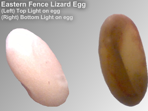 Two pictures I've taken on an Eastern Fence Lizard's egg and layered onto one image for Wikipedia. Released to the Public Domain, enjoy.